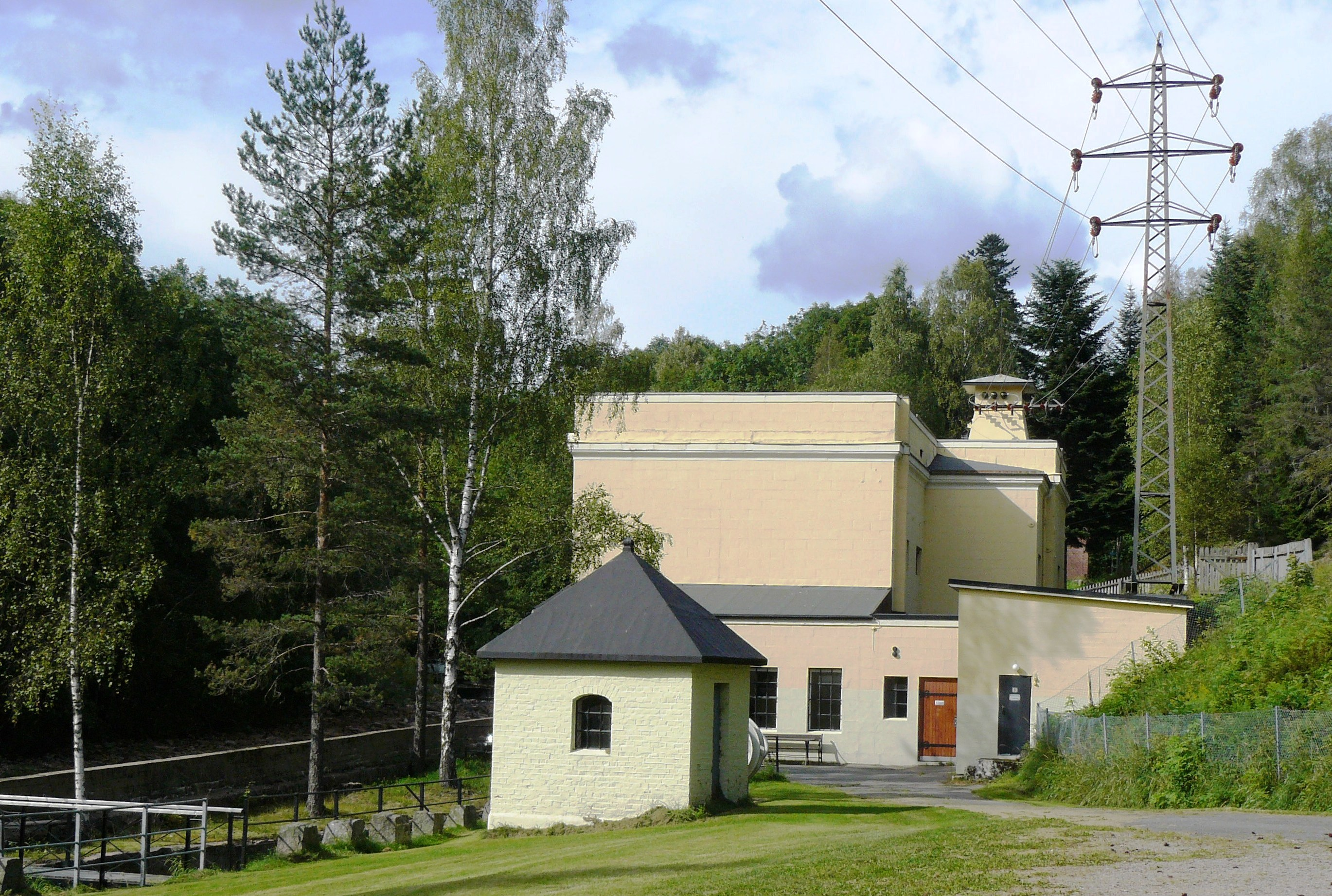 Hammeren electrical powerstation, Oslo